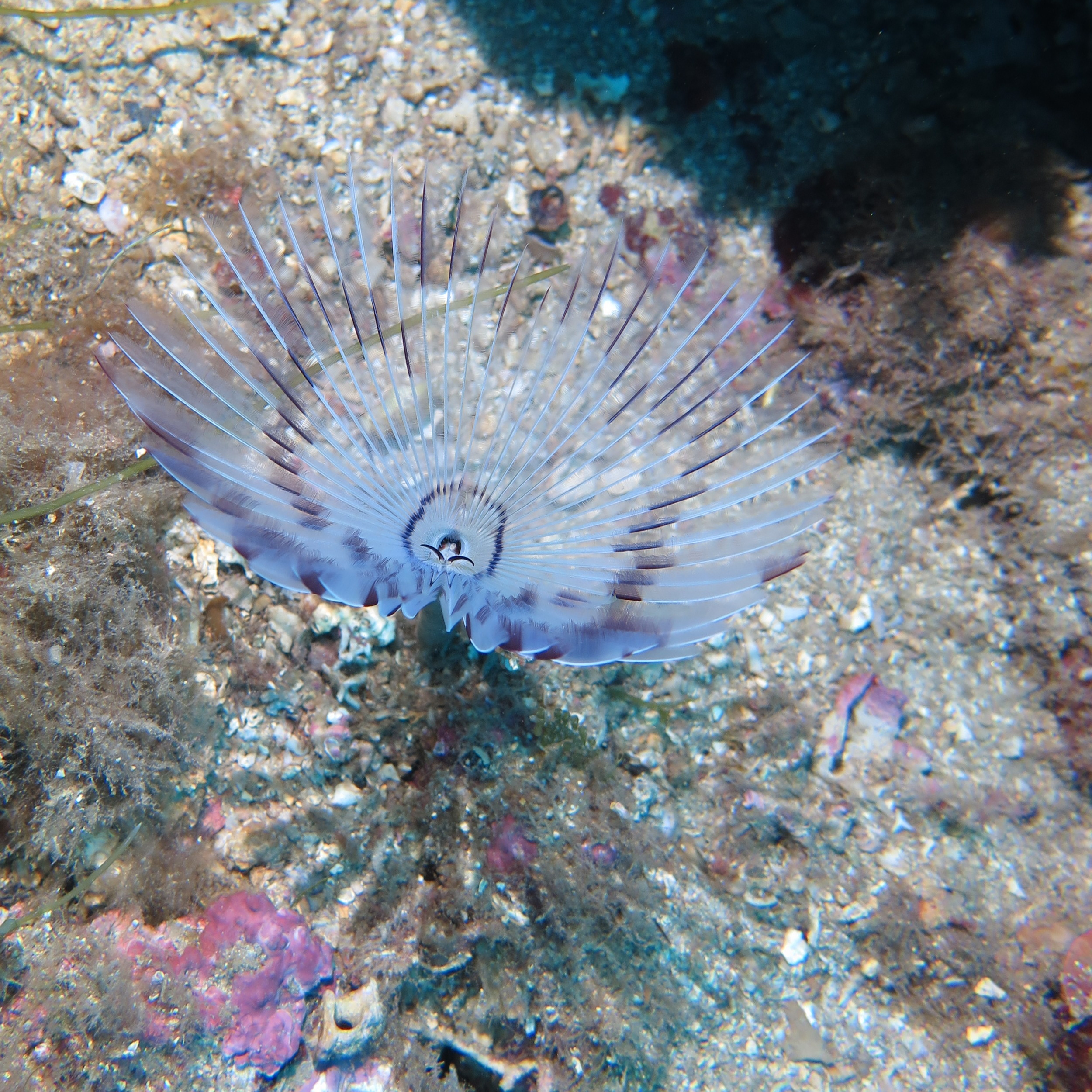 Peacock worm, Sabella pavonina. Mediterranean.